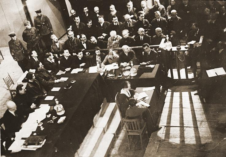 Union for the Freedom of Ukraine process, show trial in the USSR (Kharkiv) from March 9 to April 19, 1930. The courtroom. Viev on defendants.